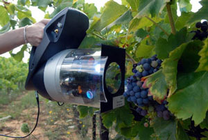 This is an example of a multiparametric fluorometer used for measurements of chlorophyll, flavonols and anthocyanins.